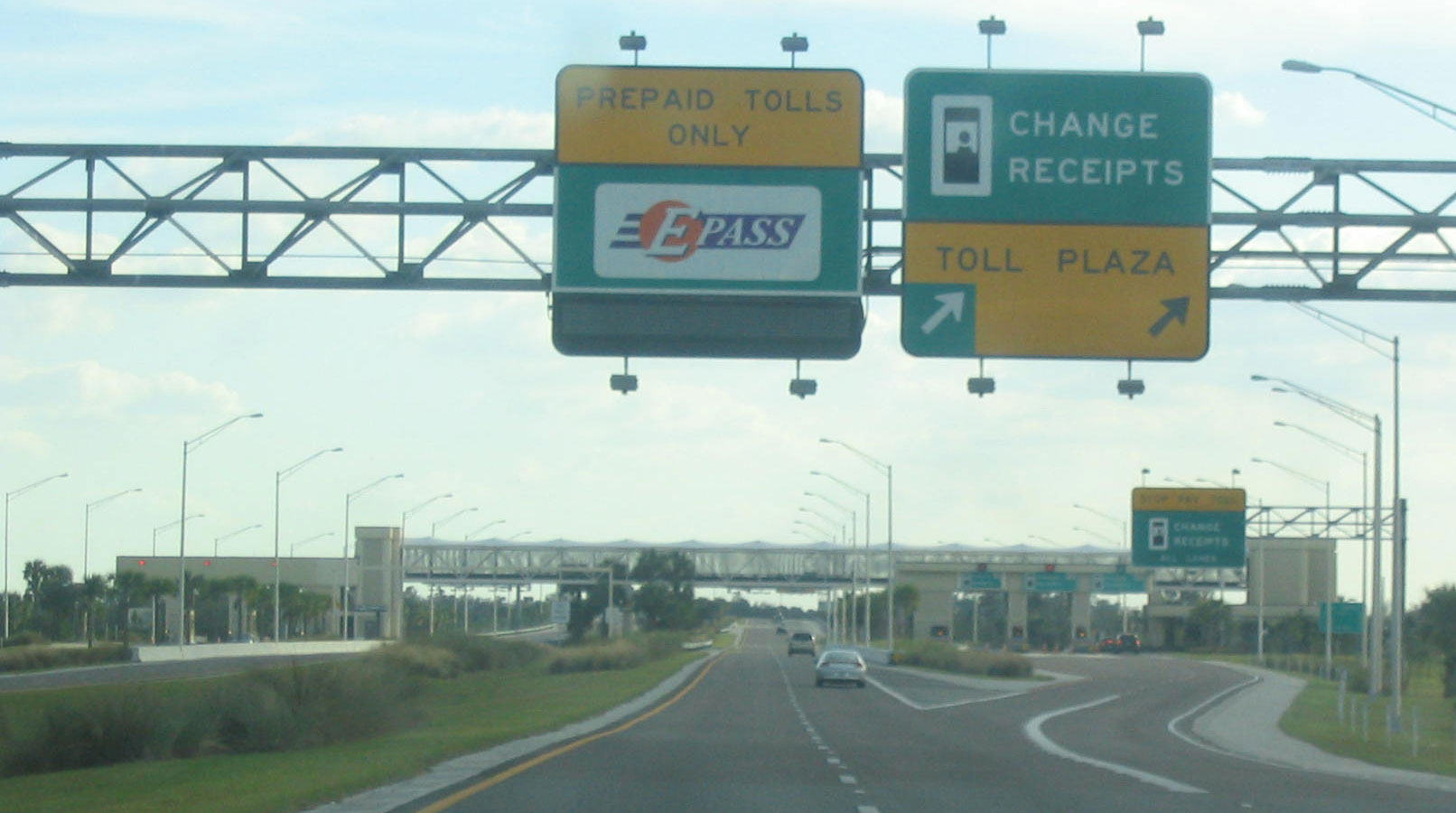 The Forest Lake Toll Plaza on Florida State Road 429. Taken January 8, 2005 by User:SPUI.